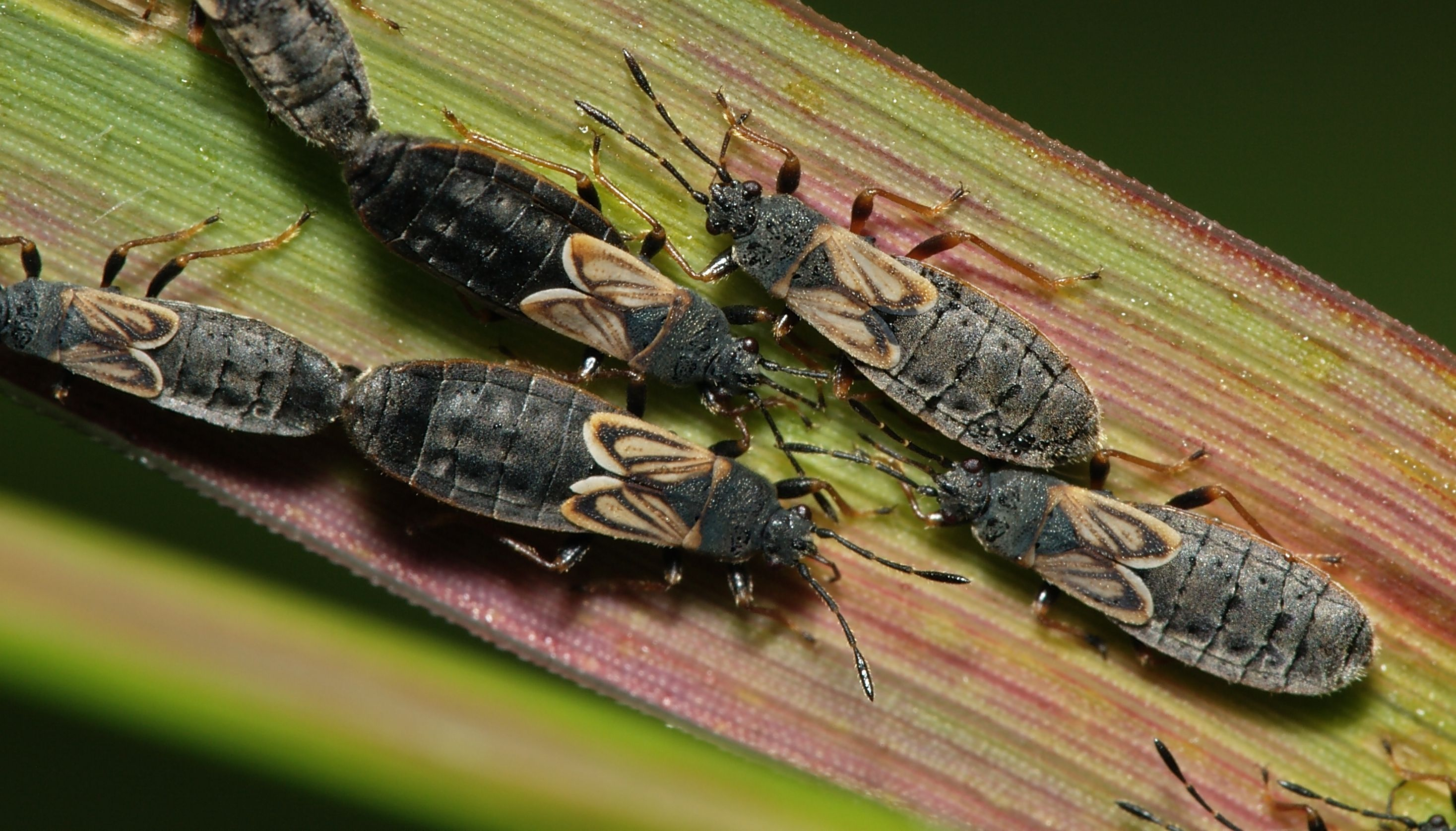 part of a group of 14 Ischnodema sabuleti mating on grass on a meadow in Cologne, Germany.